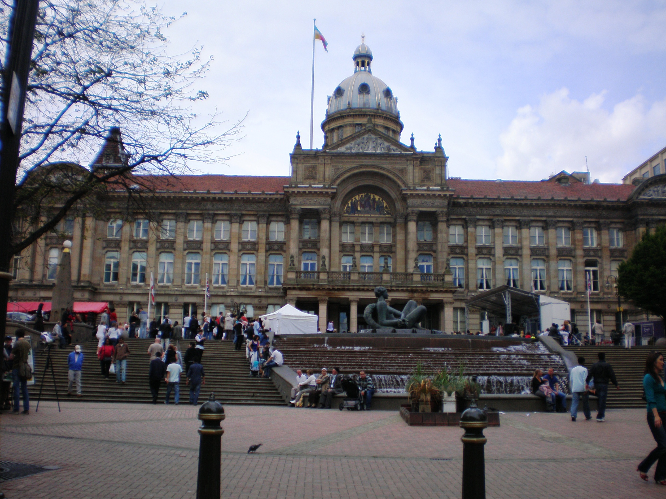 Victoria Square, Birmingham, UK